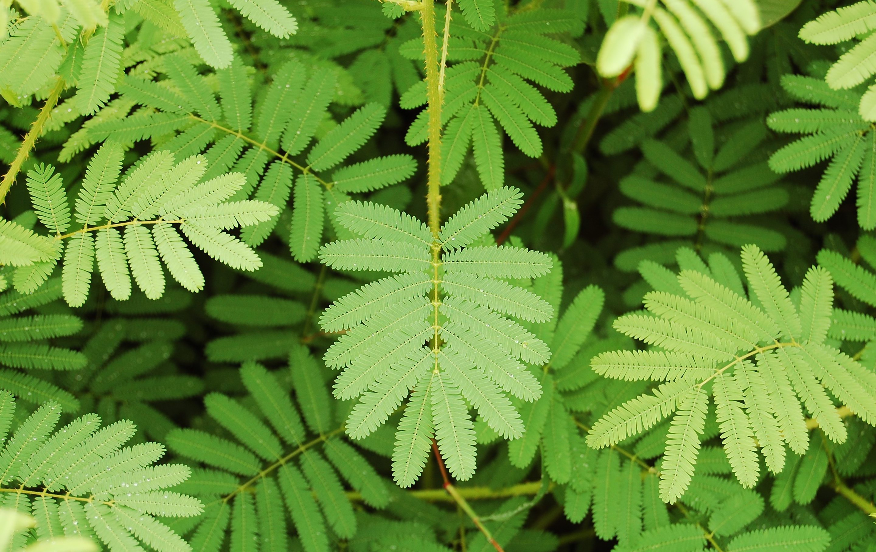 Giant Sensitive plant